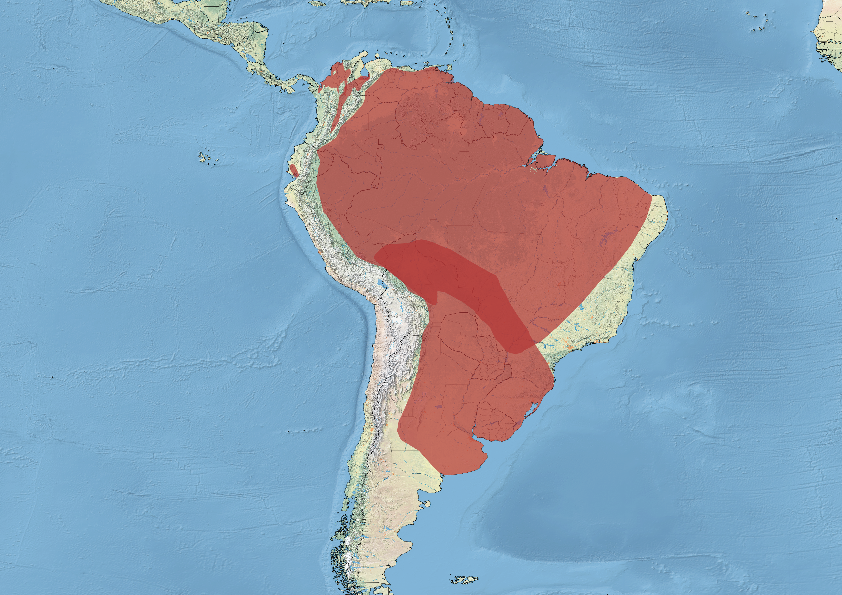 The approximate distribution of the World's Screamers. According to the IUCN Red List.